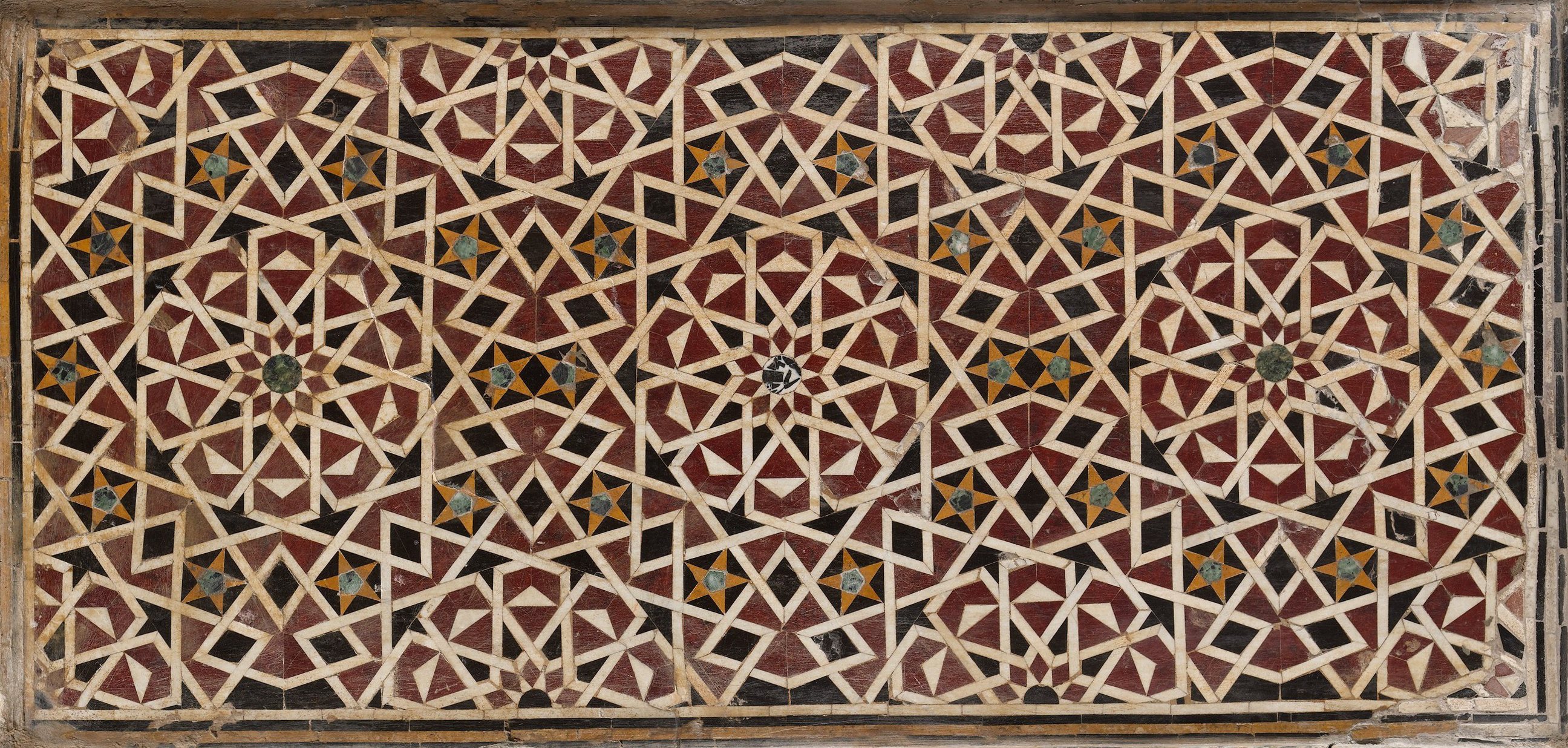 Dado panel from Mamluk Egypt (first half of 15th century). Polychrome marble mosaic. Metropolitan Museum of Art.